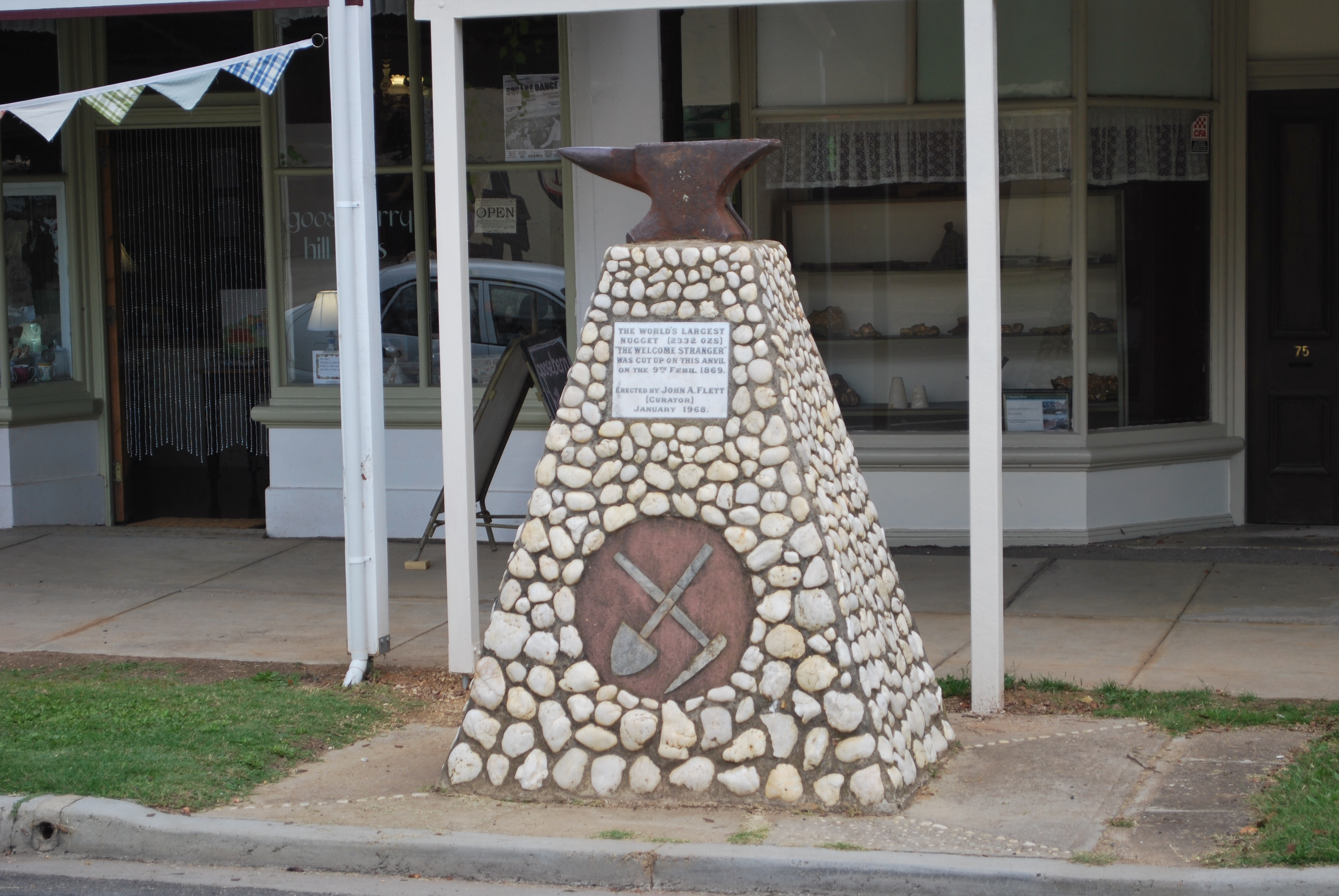 Welcome Stranger monument at Dunolly, Victoria